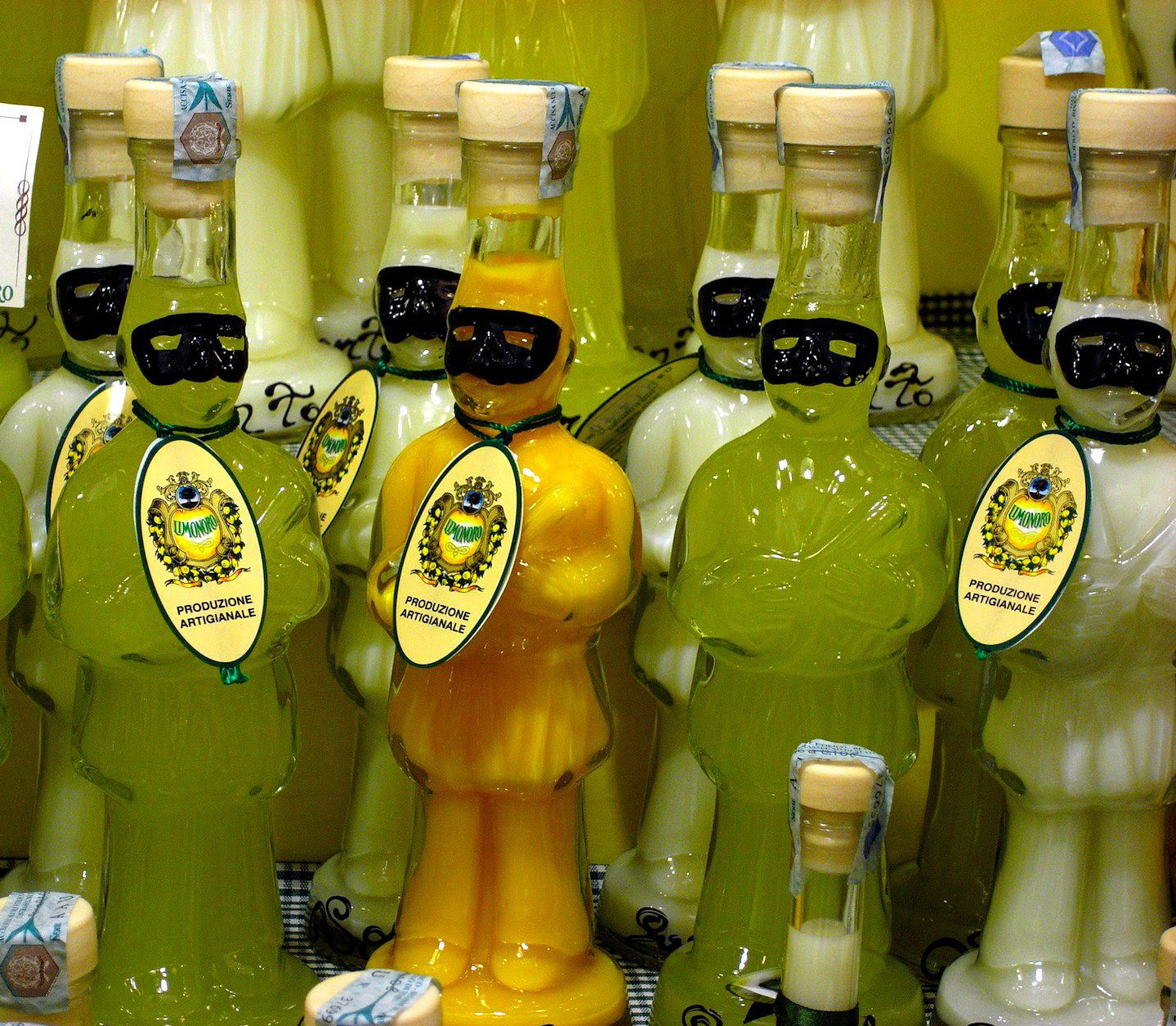 Pulcinella Limoncello in Sorrento - Italy.